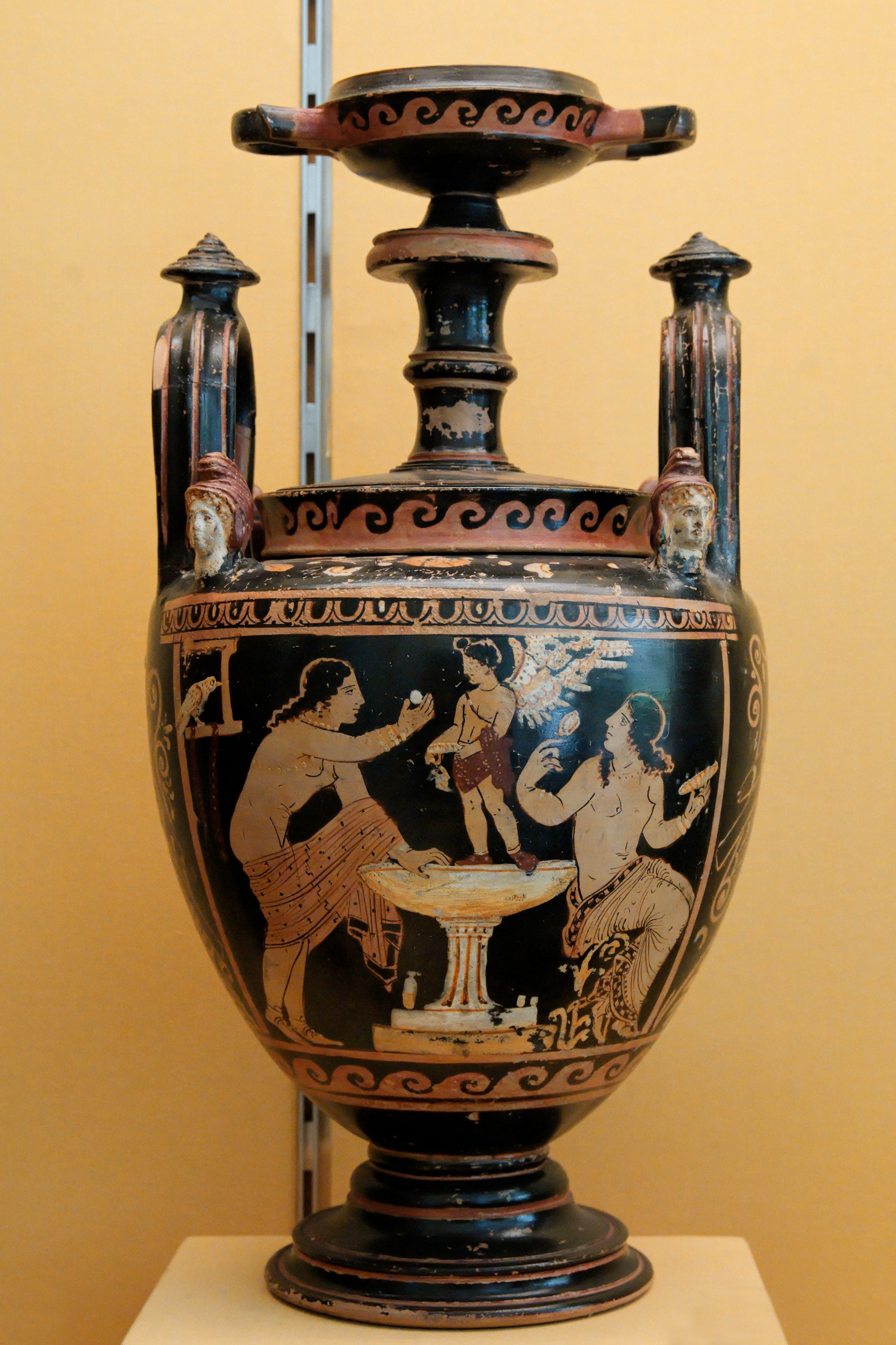 Two women at a bathtub on which Eros is standing. Paestan red-figure lebes gamikos, ca. 340 BC.